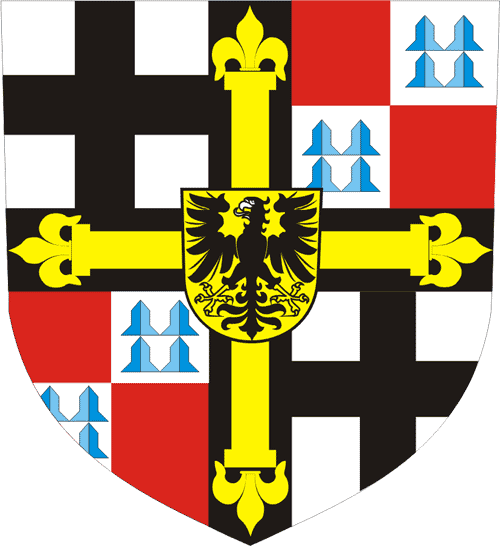 Teutonic Order - Coat of Arms of the Grandmaster Walter von Cronberg